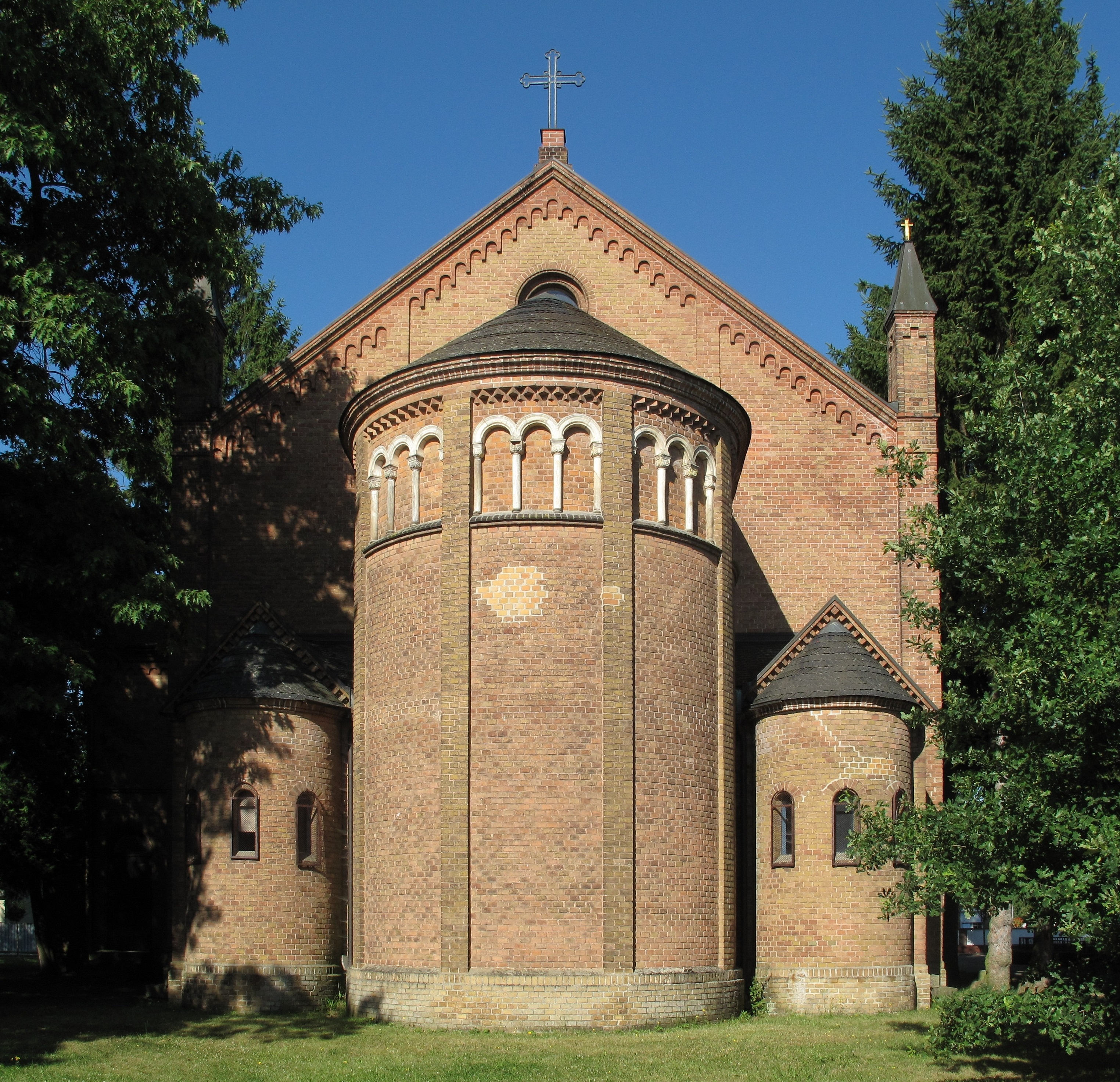 Protestant village church in Selchow. The listed church was built in 1865/66 in a neo-Romanesque style according to plans by Friedrich August Stüler. The village Selchow is a part of the town Storkow, District Oder-Spree, Brandenburg, Germany. The village was first mentioned in 1321 and had on January 1, 2013 259 inhabitants.